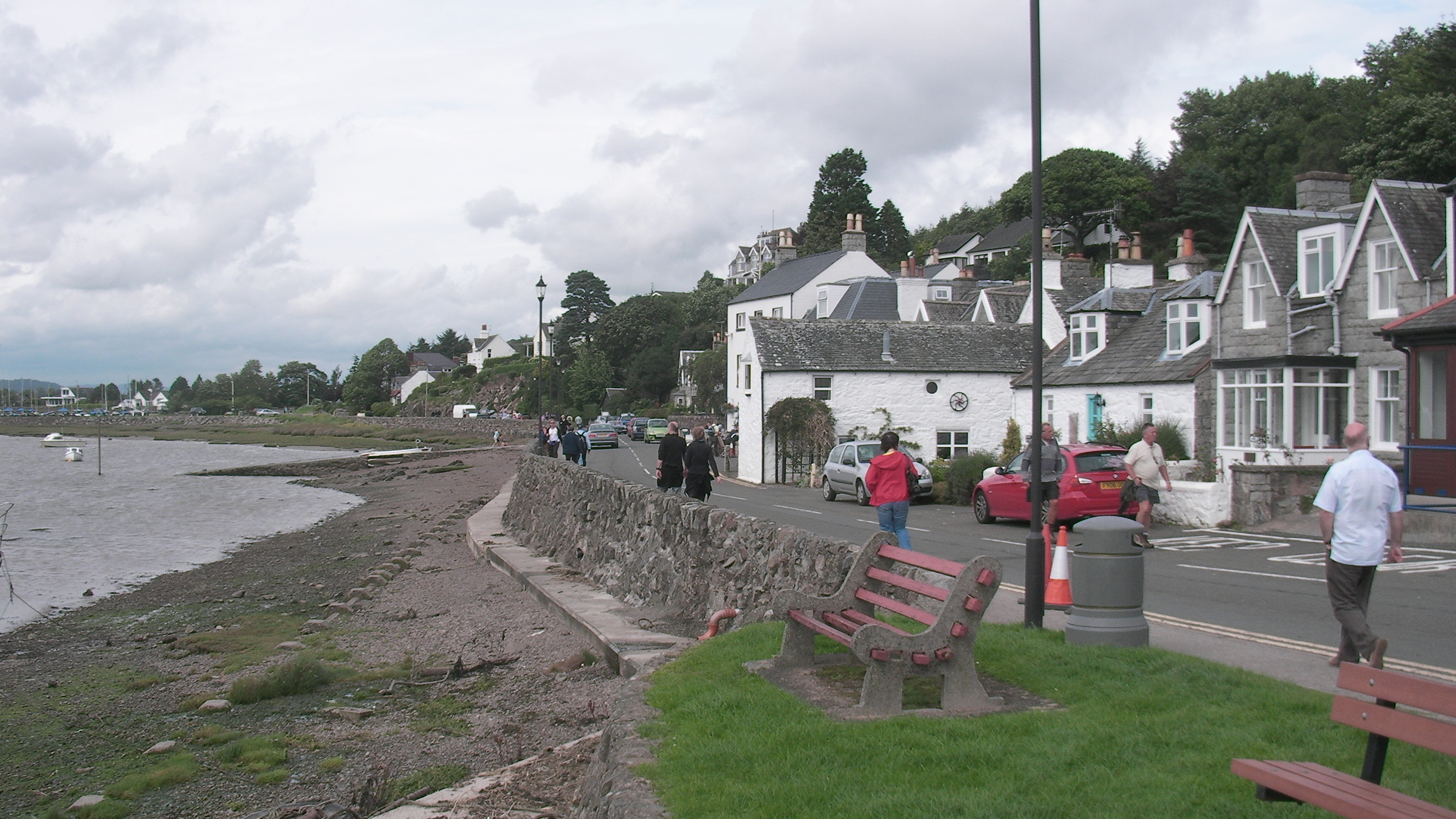 Main street of Kippford, Dumfries and Galloway, Scotland